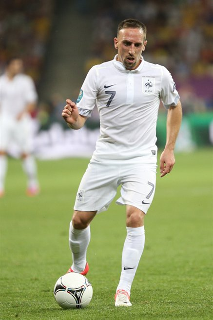 Franck Ribéry at the Euro 2012 match against Sweden